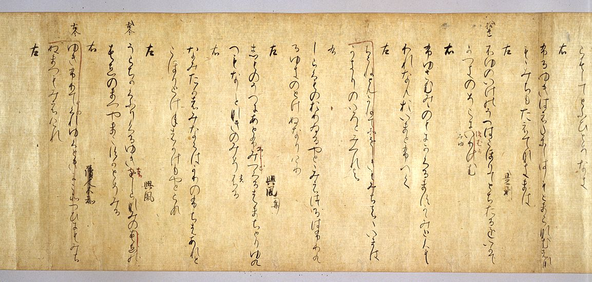 Poems from the Poetry Match Held by the Empress in the Kanpyō era (寛平御時后宮歌合, kanpyō no ontoki kisai no miya utaawase)